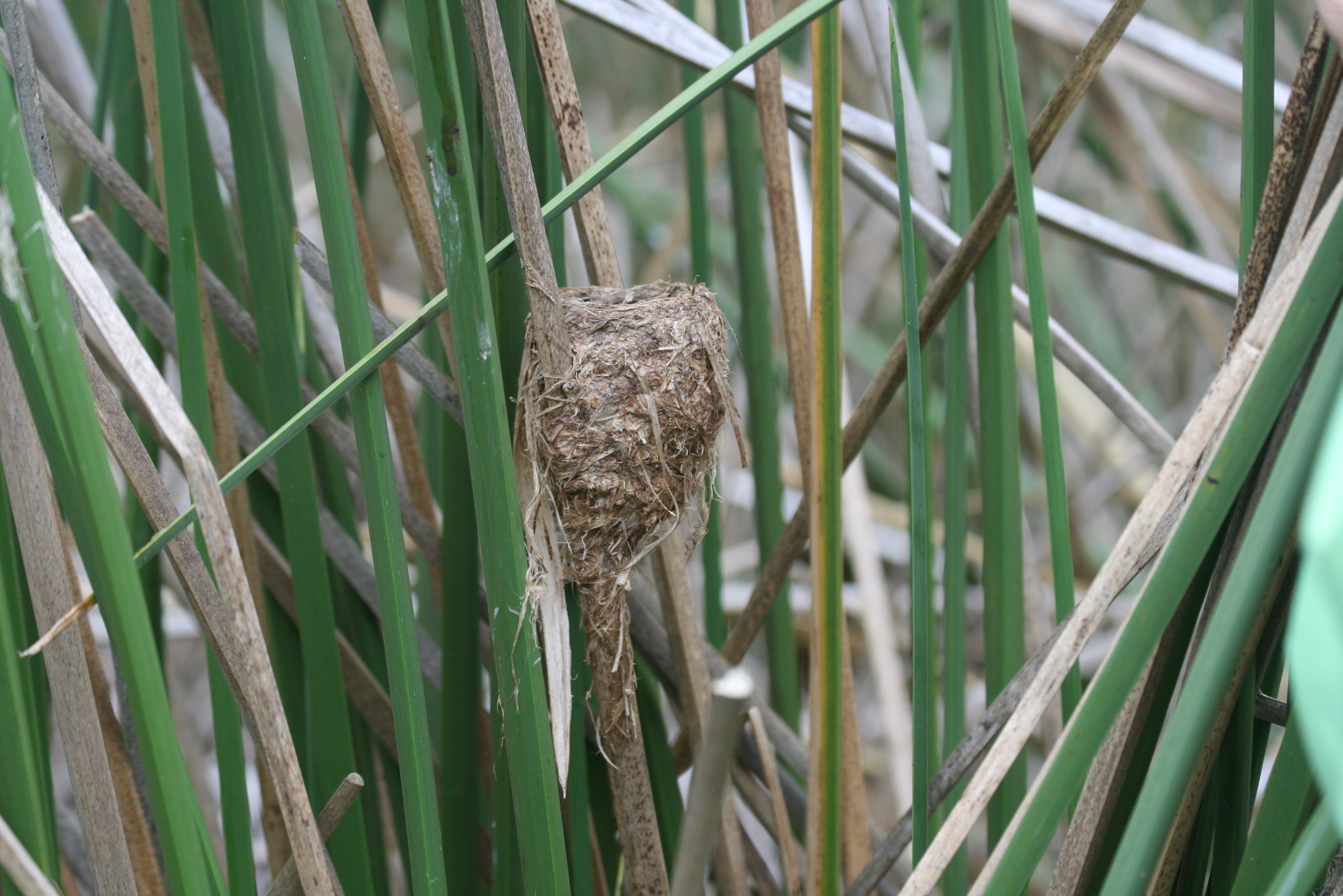 Tachuris rubrigastra nest.